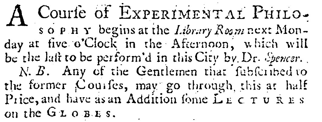 Dr Archibald Spencer advertisement for his lectures